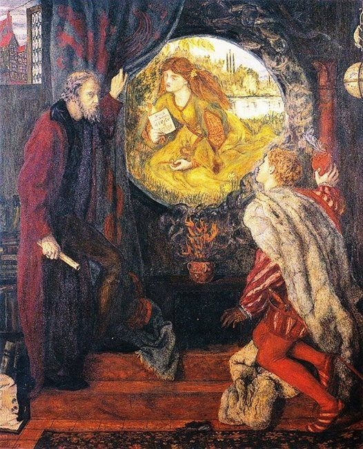 The Magic Mirror (or: The Fair Geraldine)